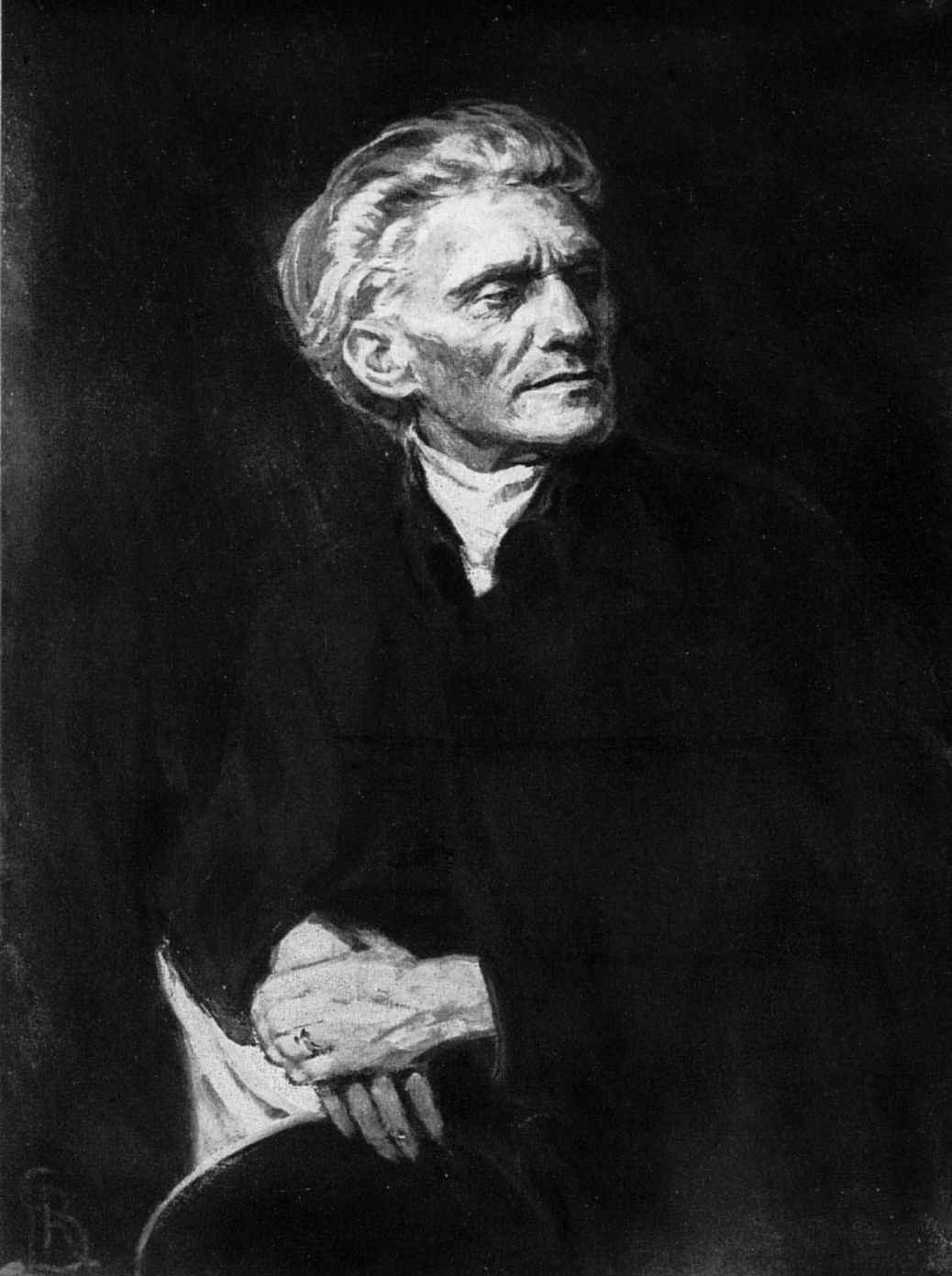 Stefan George (1868-1933); 103:77 cm